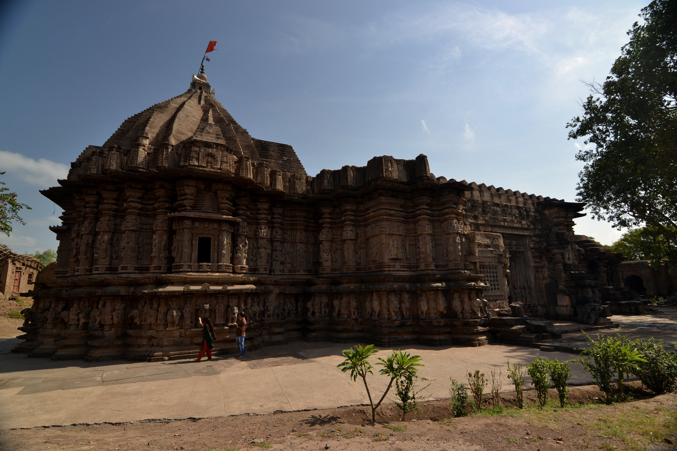 Side view of Kopeshwar Temple, Khidrapur